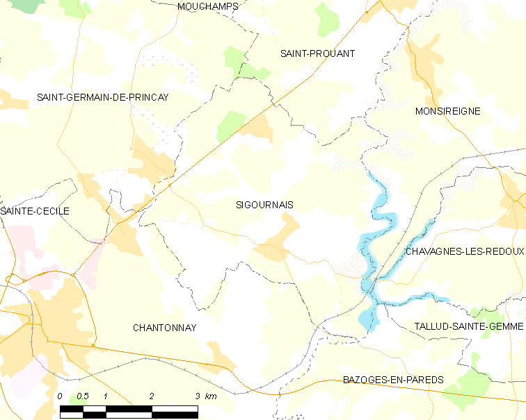 Map of French municipality Sigournais